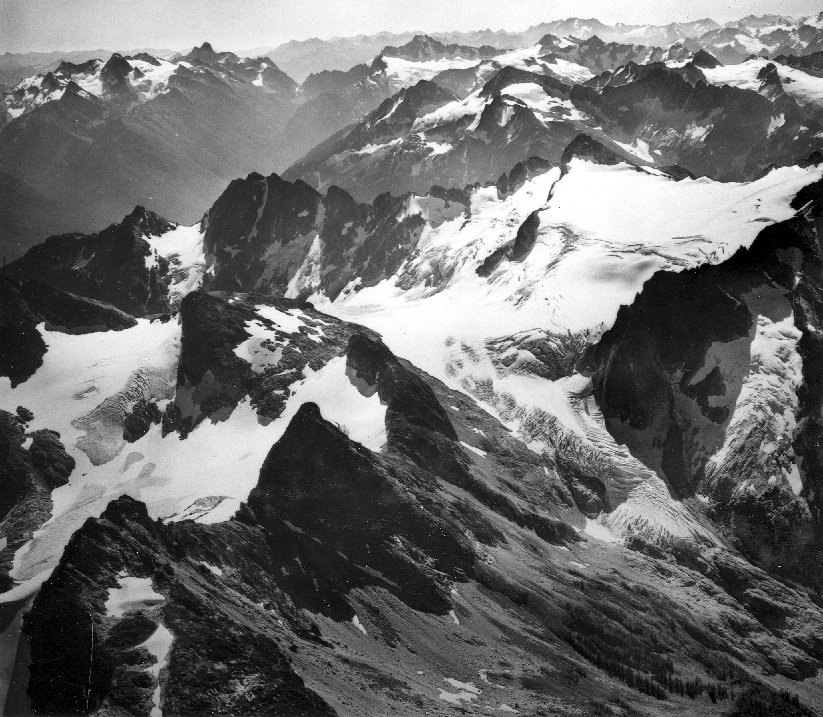 Ladder Creek and Neve Glaciers, Snowfield Peak, in North Cascades National Park. This scene displays the rugged nature of the North Cascades where glacierized peaks rise abruptly from heavily timbered valleys that are less than 1,000 m above sea level. The Cascade divide is crossed by trail at Park Creek Pass (altitude 1,845 m) top left; Goode Mountain (altitude 2,800 m) is to the left, and Buckner Mountain (altitude 2,780 m) with Boston Glacier (7 square km in area) is to the right of the pass. Timberline is at about 1,860 m. Skagit and Whatcom Counties, Washington. ca. 1966. (Aerial view) Published as figure 4 in U. S. Geological Survey. Professional paper 715-A. 1971. Pinnacle Peak (bottom left) and Paul Bunyans Stump (bottom left center) with Colonial Glacier behind and left; Snowfield Peak (upper right center middle distance) with Neve Glacier descending past the center to the left and Ladder Creek Glacier descending from the center toward the lower right. View direction: 150° Image file